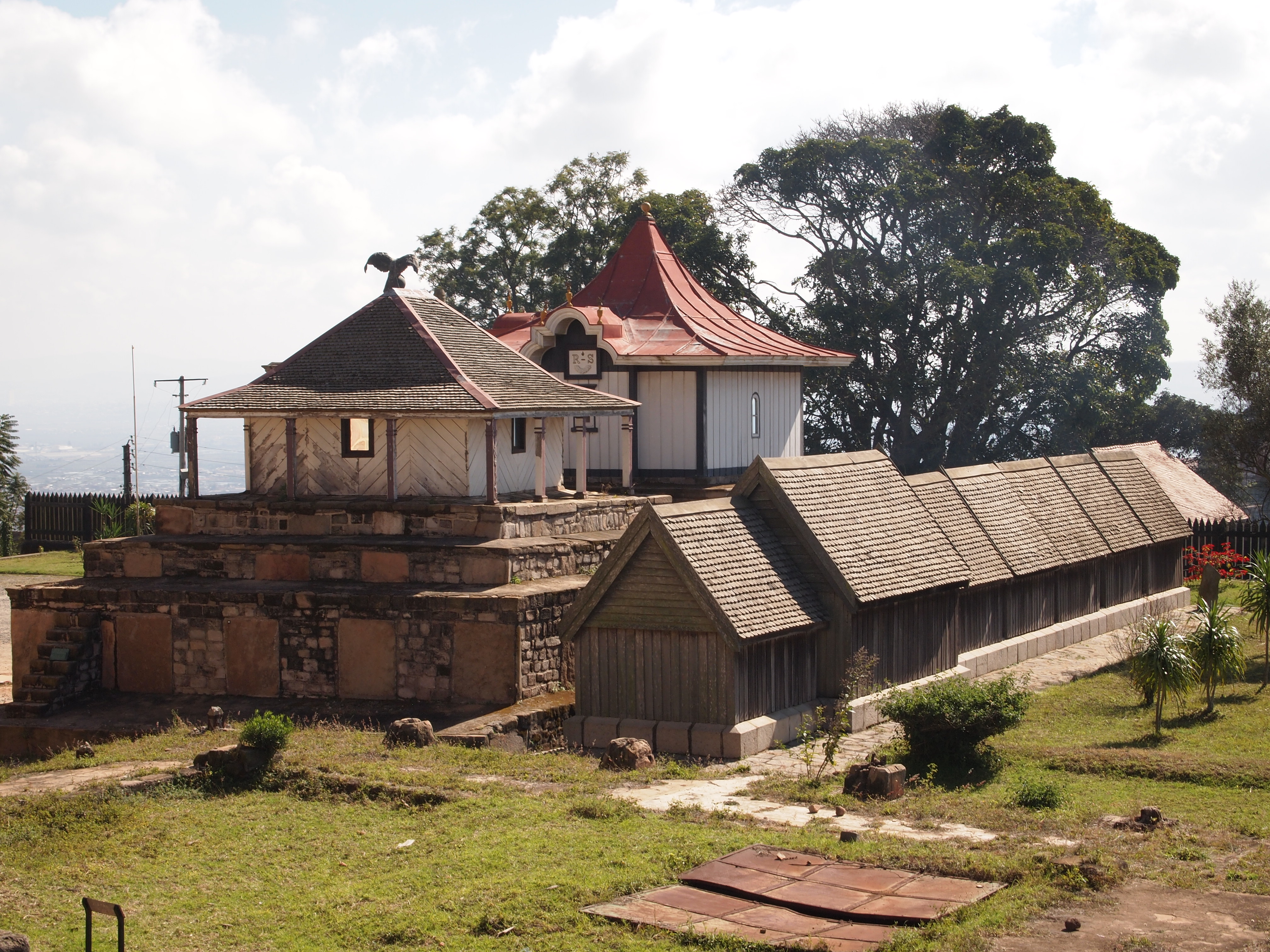 All royal tombs at the Rova of Antananarivo palace in Madagascar